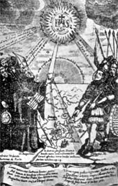 A late 17th century Manuscript by Gaspar de San Agustin from the Archive of the Indies, Madrid, 1698. Shows an Image depicting López de Legazpi's conquest of the Philippines.